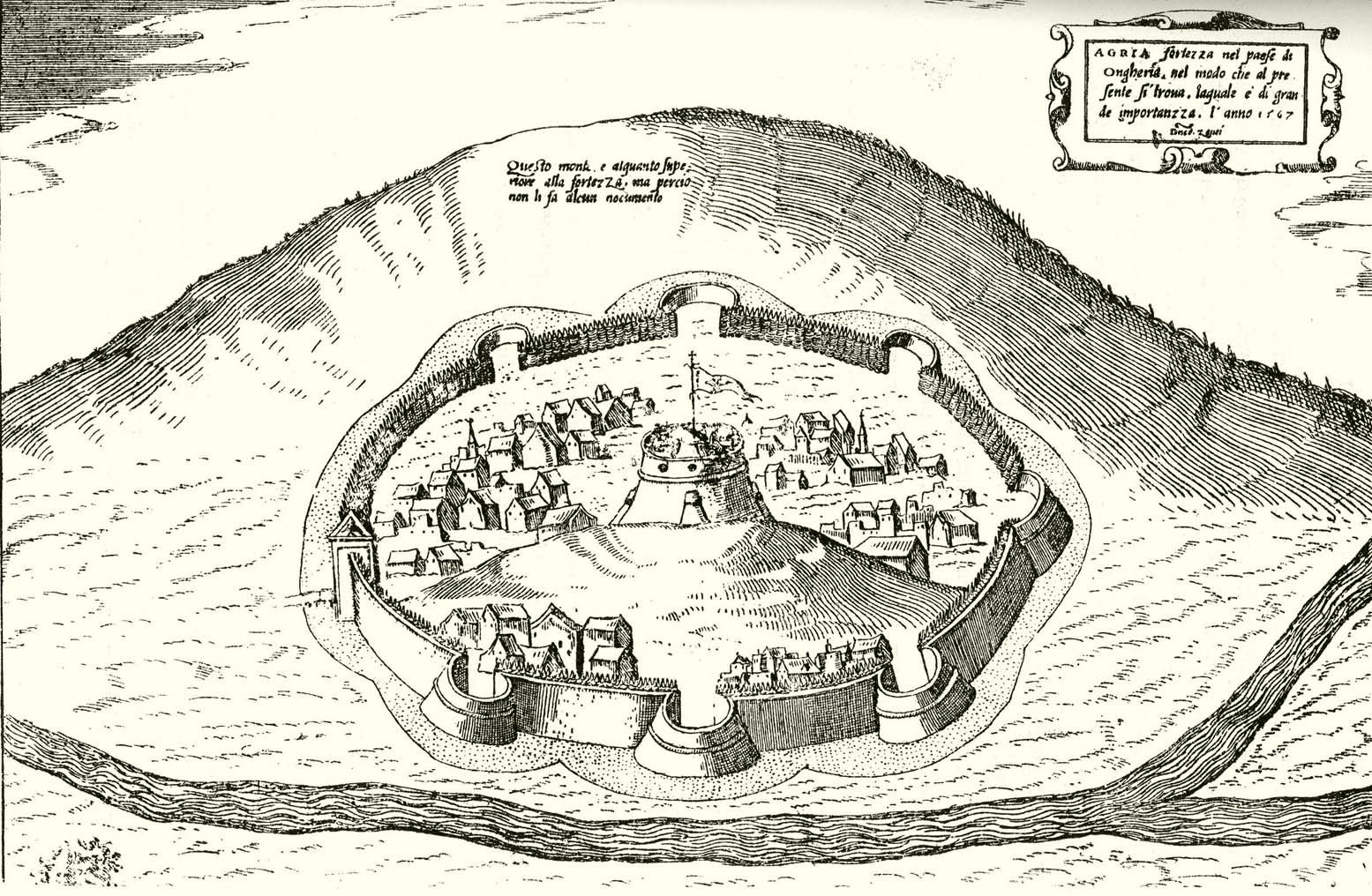 Eger castle, 1567